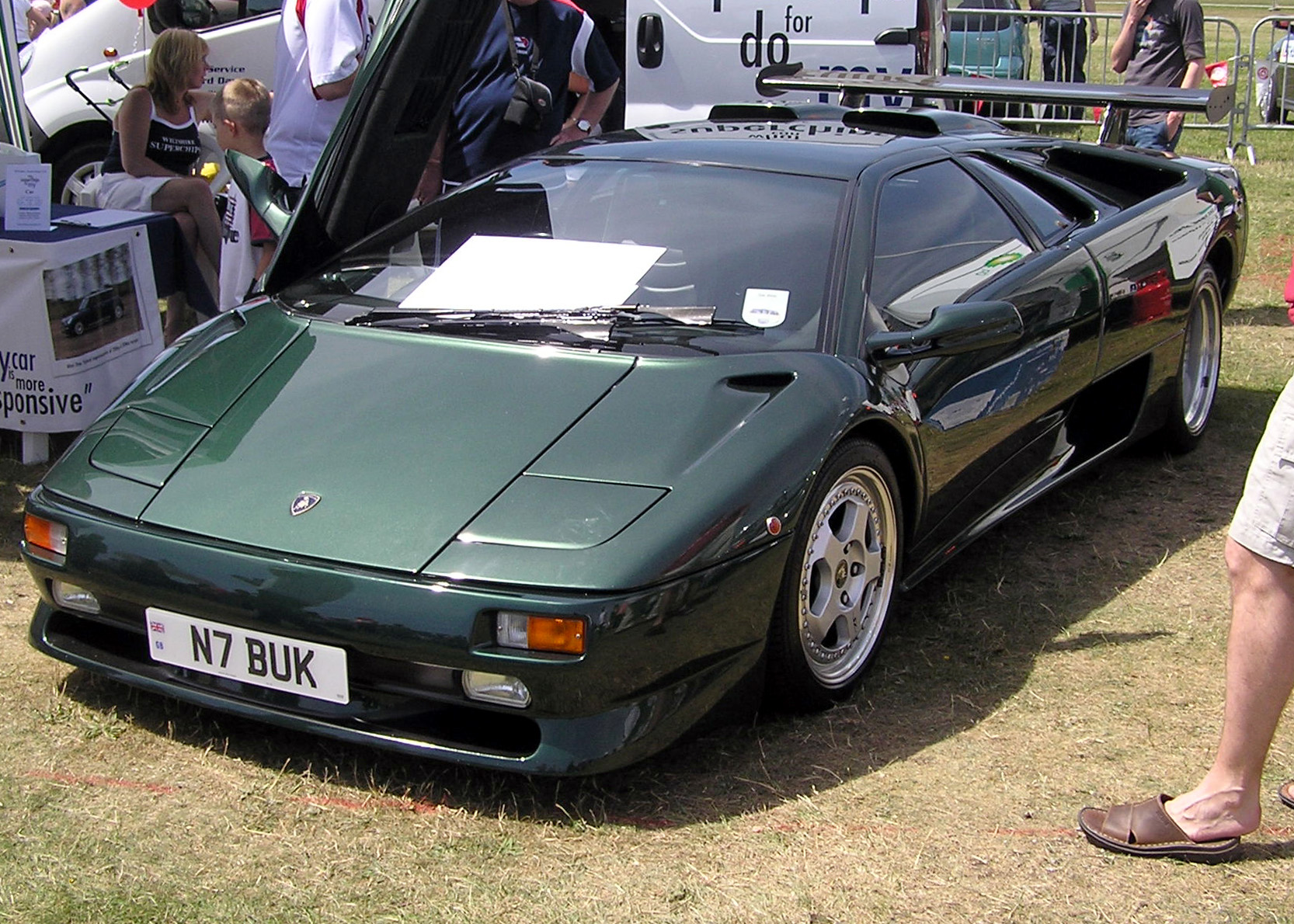 Lamborghini Diablo seen at Bristol Car Show, England. Sorry I misspelt it in the filename. Photographed by Adrian Pingstone in June 2004 and released to the public domain.